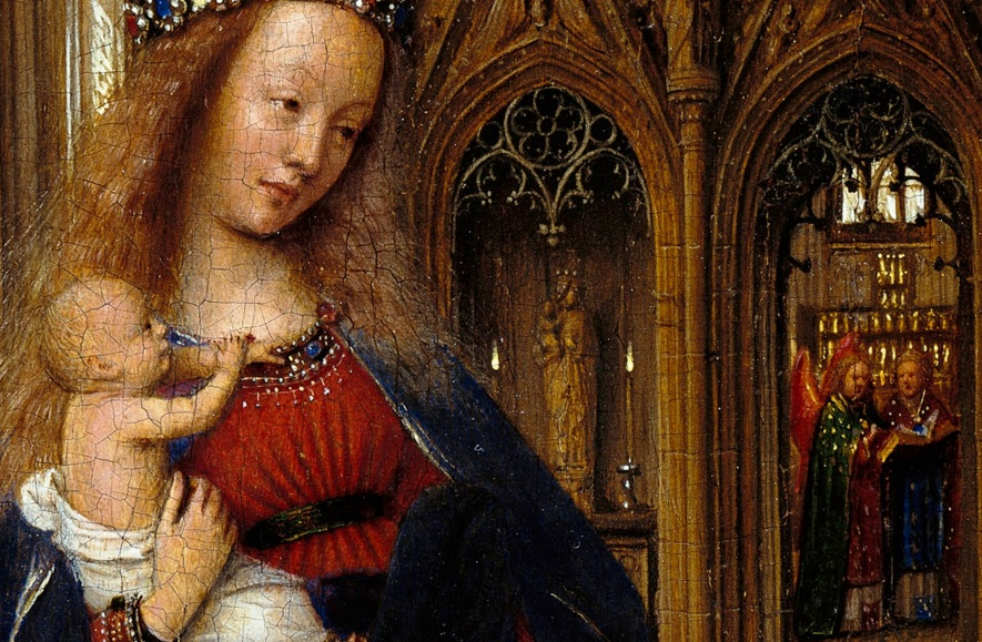 Oil on oak panel completed c. 1438-40 by the Early Netherlandish painter Jan van Eyck.